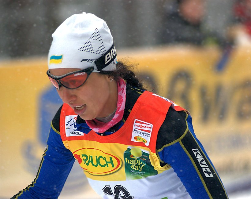 Vita Jakimchuk at the Tour de Ski 2010 in Oberhof